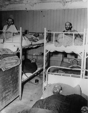 Survivors lie in bed in an infirmary at the newly liberated Buchenwald concentration camp.